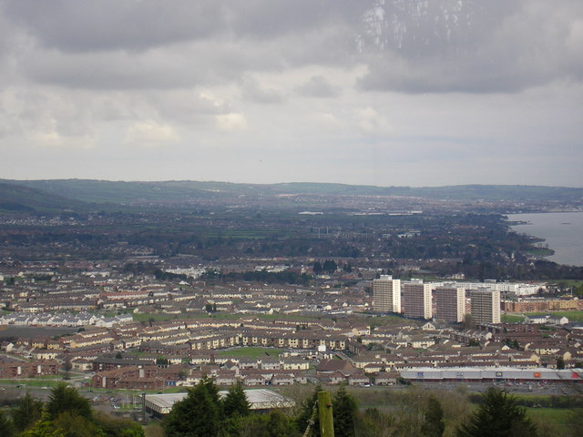 Rathcoole Overview. Shows Rathcoole from Belfast Zoo and the four huge, striking, landmark multi-storey flats.